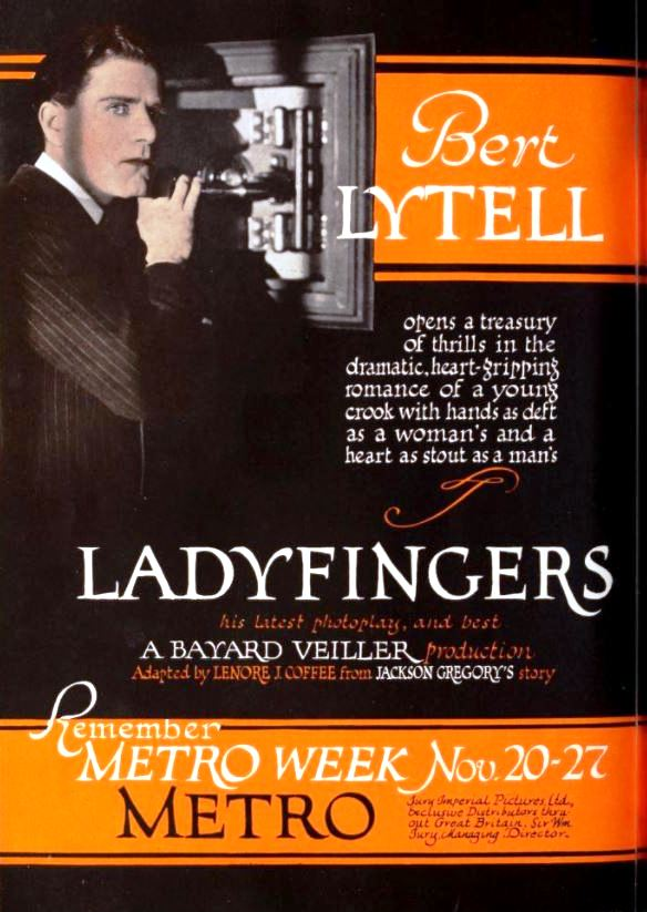 Advertisement for the American comedy film Alias Ladyfingers (1921) with Bert Lytell, from the insert after page 18 of the November 5, 1921 Exhibitors Herald.